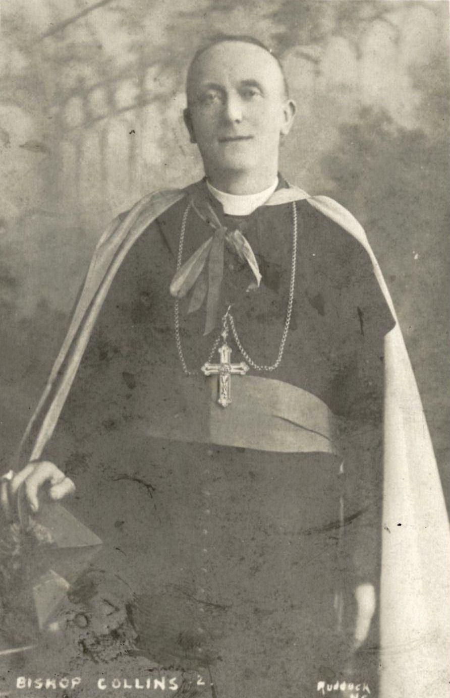 Postcard photo of Richard Collins (1857-1924), Roman Catholic Bishop of Hexham and Newcastle.